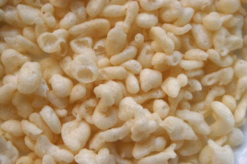 Detail shot of tenkasu, crunchy bits of deep fried flour-dough used as a topping in Japanese cuisine